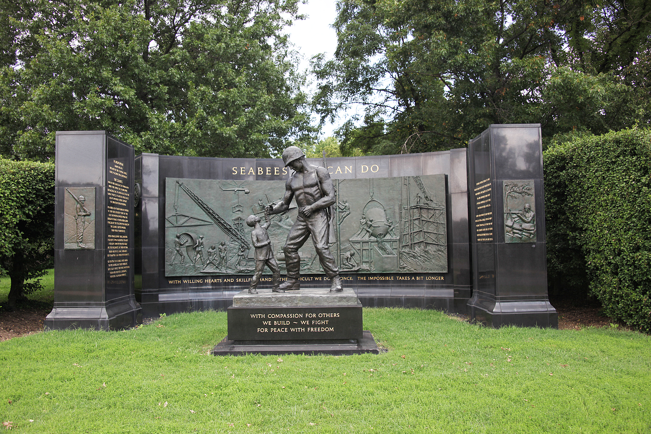 Looking due north at the Seabees Memorial, located on Memorial Drive at Arlington National Cemetery in Arlington, Virginia, in the United States. The memorial is on an east-west axis, with the statue in the center. When World War II broke out for the United States, the U.S. Navy created the Construction Battalion, or C.B., as a way of meeting the sudden and immense demand for new construction on naval bases. The initials "C" and "B" are pronounced "Seabee," and soon the members of the Construction Battalion were known as Seabees. The monument is located at the eastern end of Memorial Drive, on the north side. A larger-than-life shirtless, muscular Seabee greets a small male child. Curving behind the bronze statue is a curving wall of polished brown marble, on which is attached a large bronze panel in bas-relief depicting many of the functions of the Seabees: Surveying, operating heavy equipment, jackhammering, building Quonset huts, and ironworking. Above, inscribed in gold leaf, are the words "Seabees - Can Do" -- the latter being the Seabee motto. On the ends of the wall are the Seal of the Construction Battalion and the U.S. Navy. To the left and right are pylons of polished brown marble which face inward. Attached to either end is a bas-relief bronze plaque, the left depicting the Seabee on guard and the right depicting the Seabee crouching behind a machine gun. The front of the left pylon contains a memorial dedication. The rear of the left pylon contains a list of various military battles the Seabees engaged in from World War II through the Vietnam War. The face of the right pylon contains the "Seabee prayer," a Christian prayer asking God's protection for the Seabees. The monument was designed and sculpted by Felix de Weldon. It was dedicated on May 27, 1974.